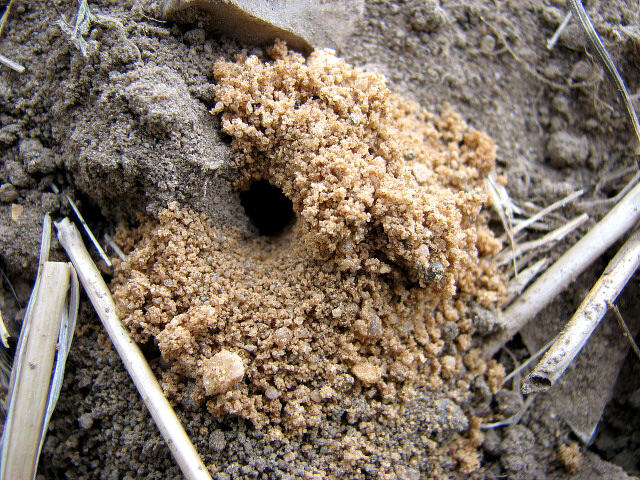 Earthworm burrow Earthworms belong to the class Oligochaeta of the phylum Annelida. They make up five families of which the Lumbricidae are native to North America, Europe, and northern Asia. There are over 5,500 named species of earthworms known worldwide. The animals live mainly underground, traversing the soil in burrows that they create. They are essential to composting in that they pull below ground and ingest any organic matter that is deposited on the soil surface as well as soil particles and small stones. Because of its burrowing activities, the earthworm helps to keep the soil structure open and aerated. For more information see Earthworm